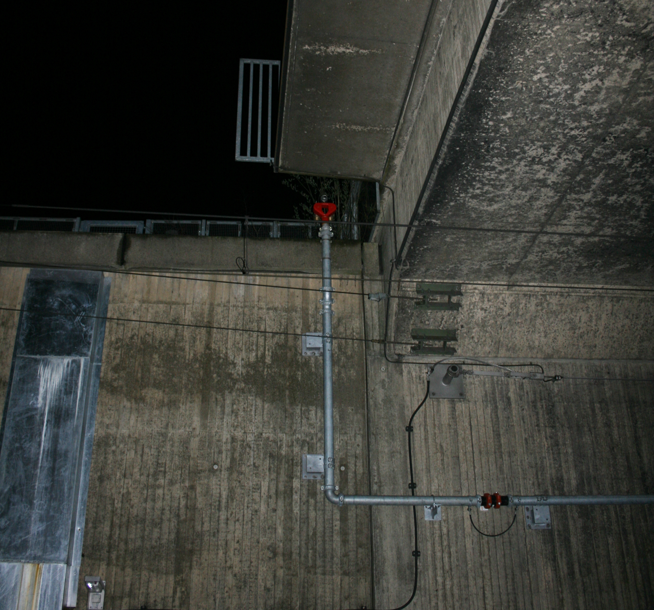 North-west portal of the Elbeseitenkanal Tunnel with dry standpipe.